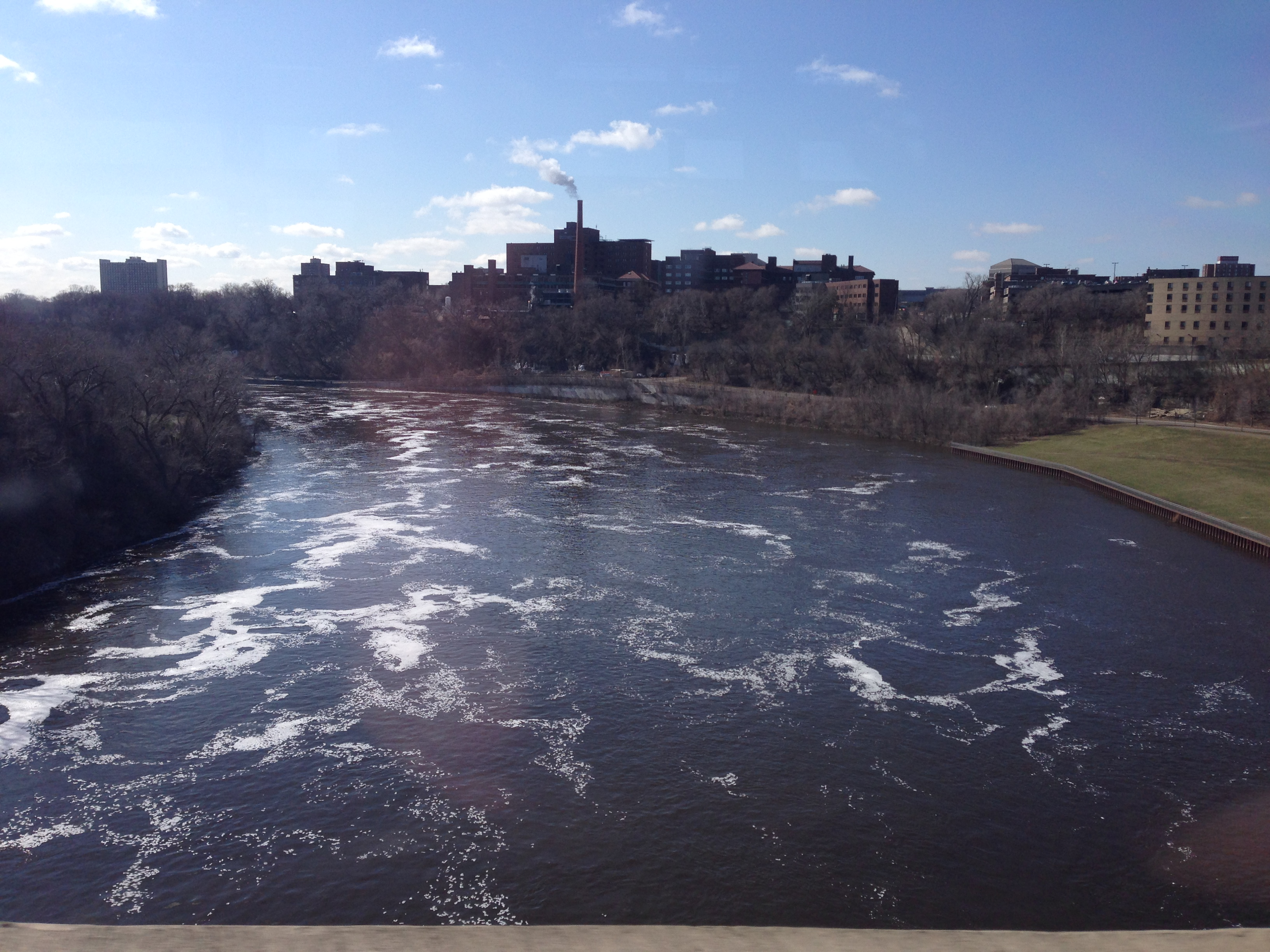 Mississippi River from Washington Avenue Bridge in Minneapolis, Minnesota, between banks of the University of Minnesota Twin Cities campus. M Health Fairview University of Minnesota Medical Center and medical campus in background.